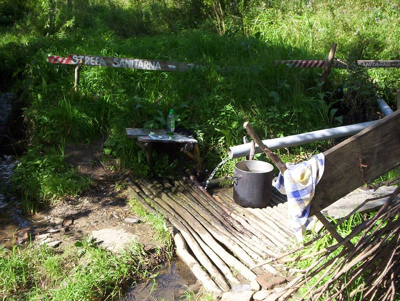 "Bathroom" in tent base in Jawornik, Poland.